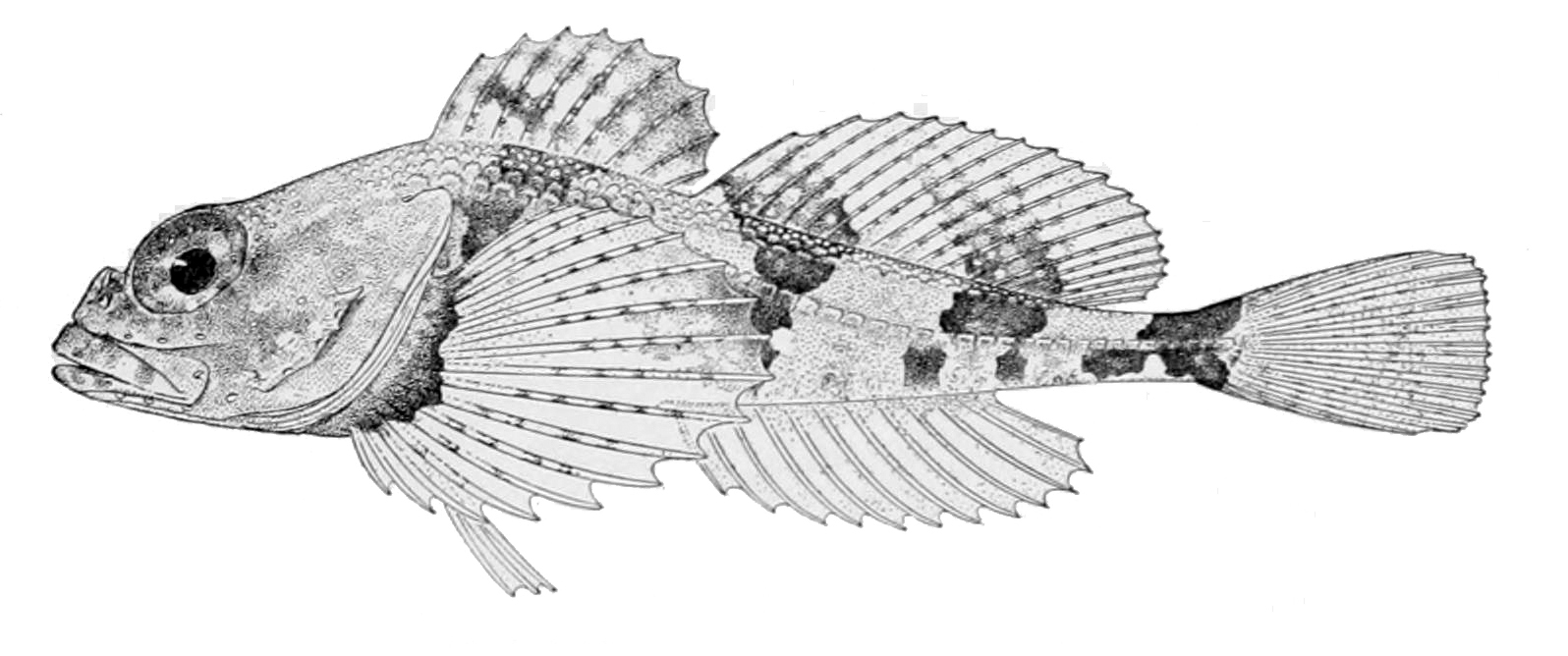 Stelgistrum beringianum